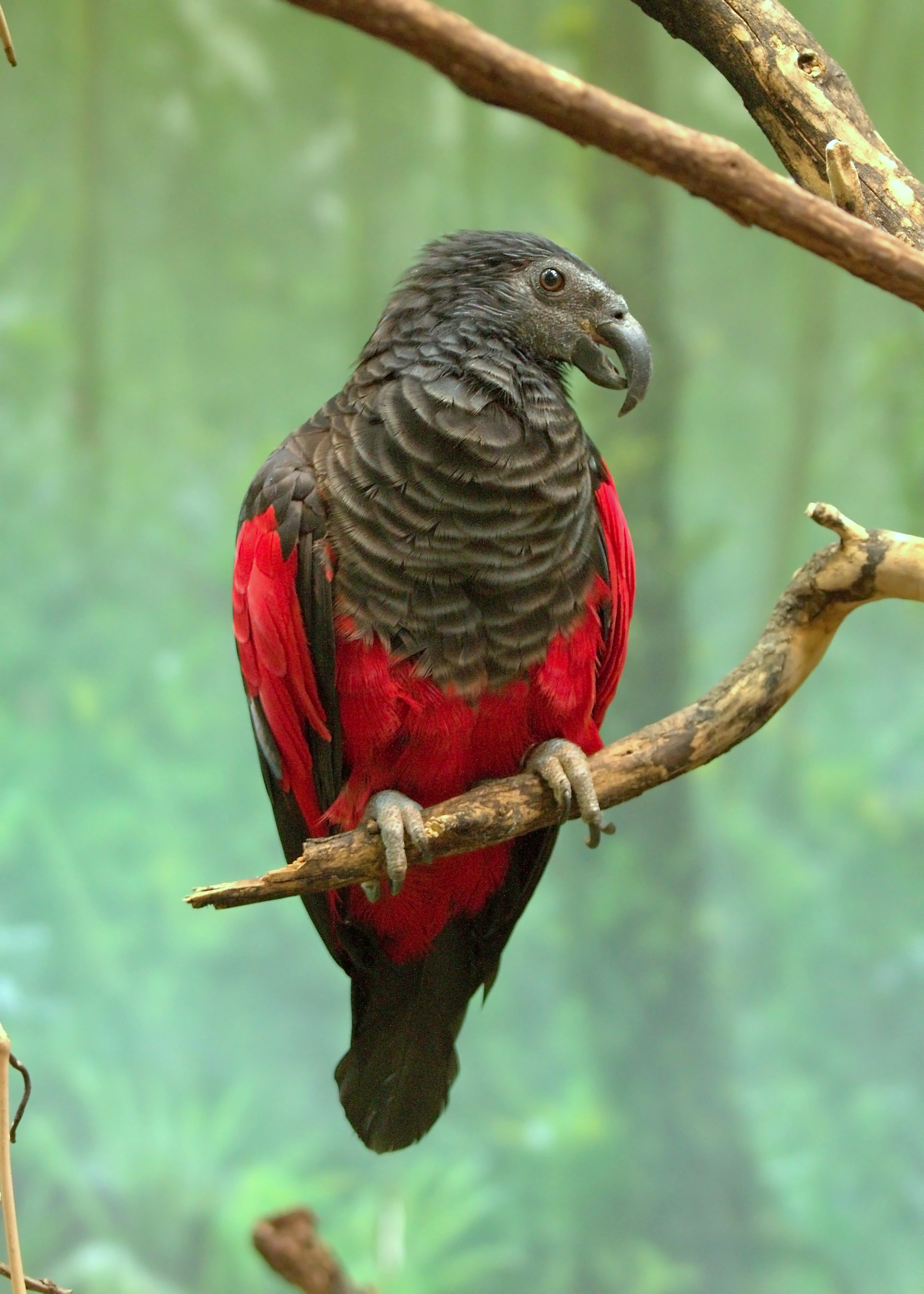 Pesquet's Parrot (Psittrichas fulgidus) - taken at the Cincinnati Zoo.